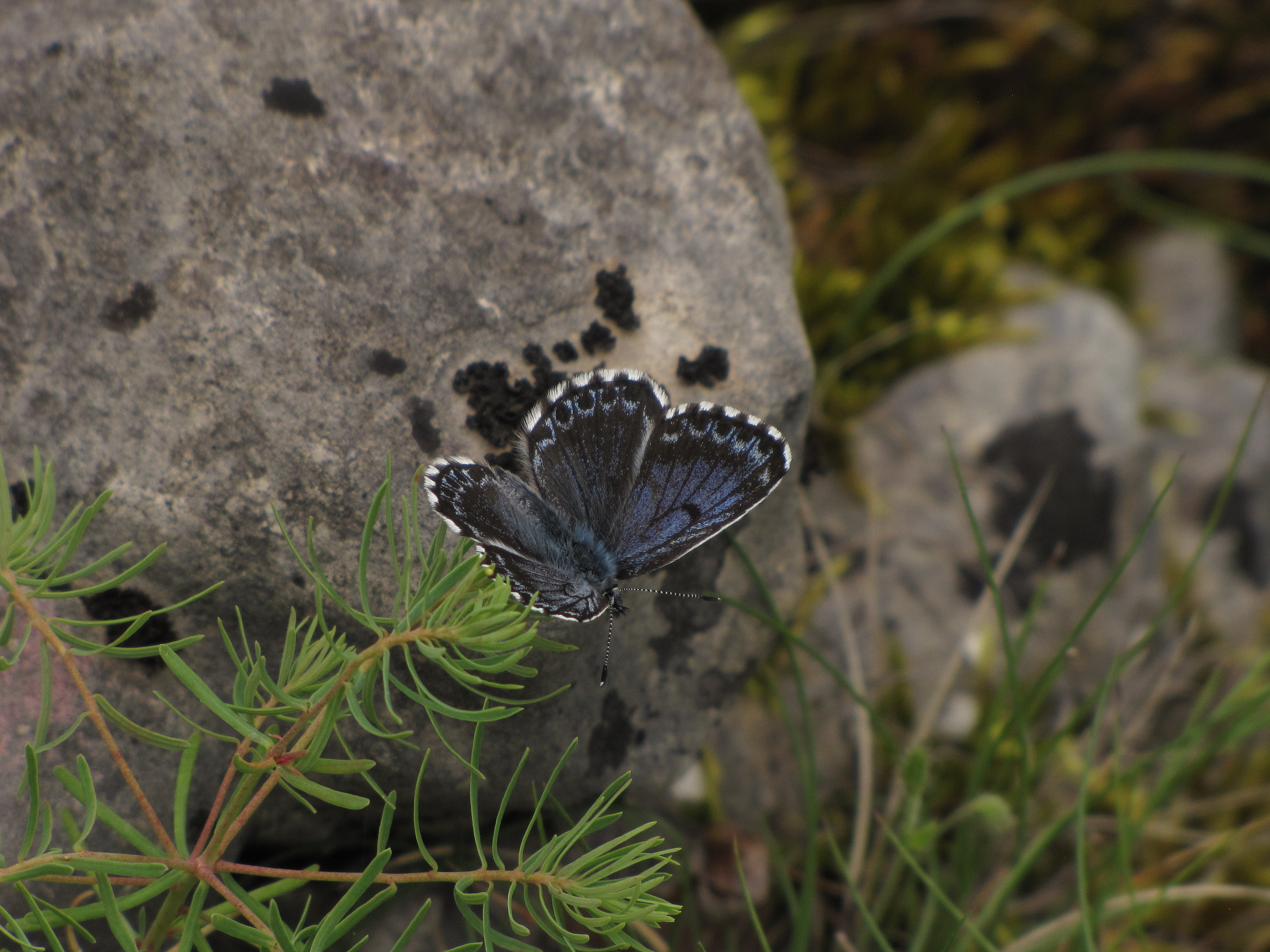 The Chequered Blue Butterfly